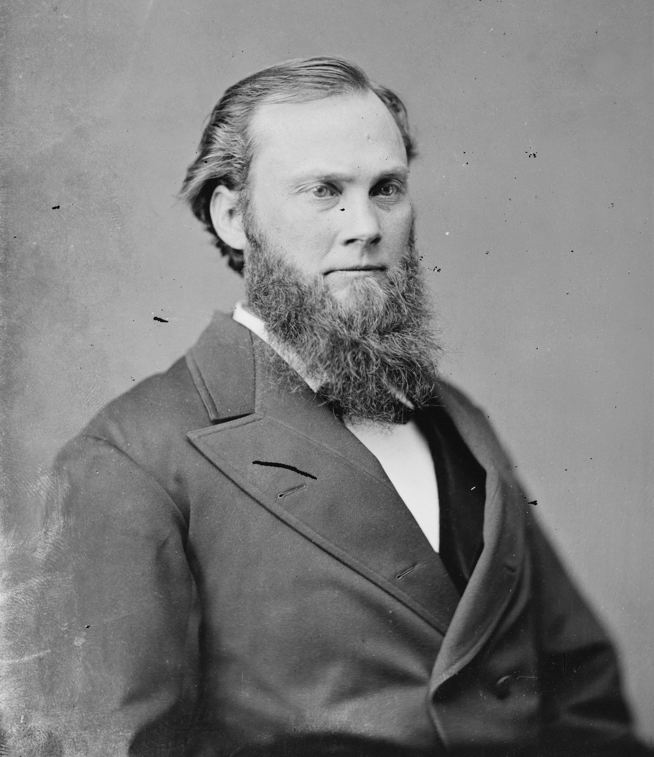 Jacob Montgomery Thornburgh. Library of Congress description: "Thornburgh, Hon. Jacob Montgomery of Tenn. Lt. Col. 4th Tenn. Cavalry U.S.A.".